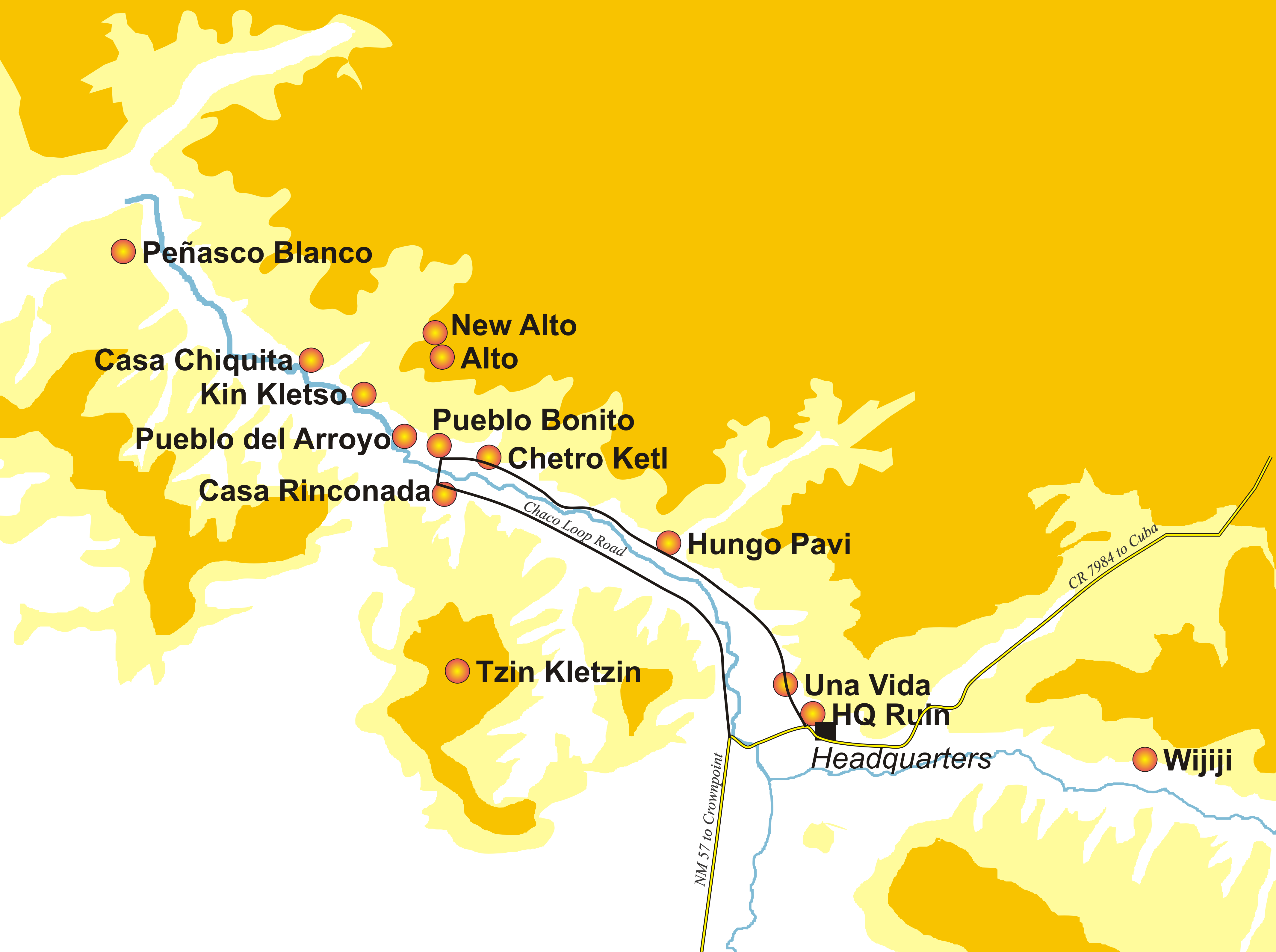 Schematic map of the Chaco Canyon archaeological sites